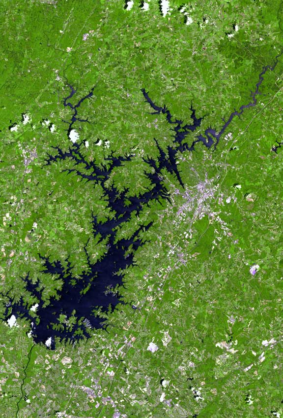 The raw satellite imagery shown in these images was obtain from NASA and/or the US Geological Survey. Post-processing and production by